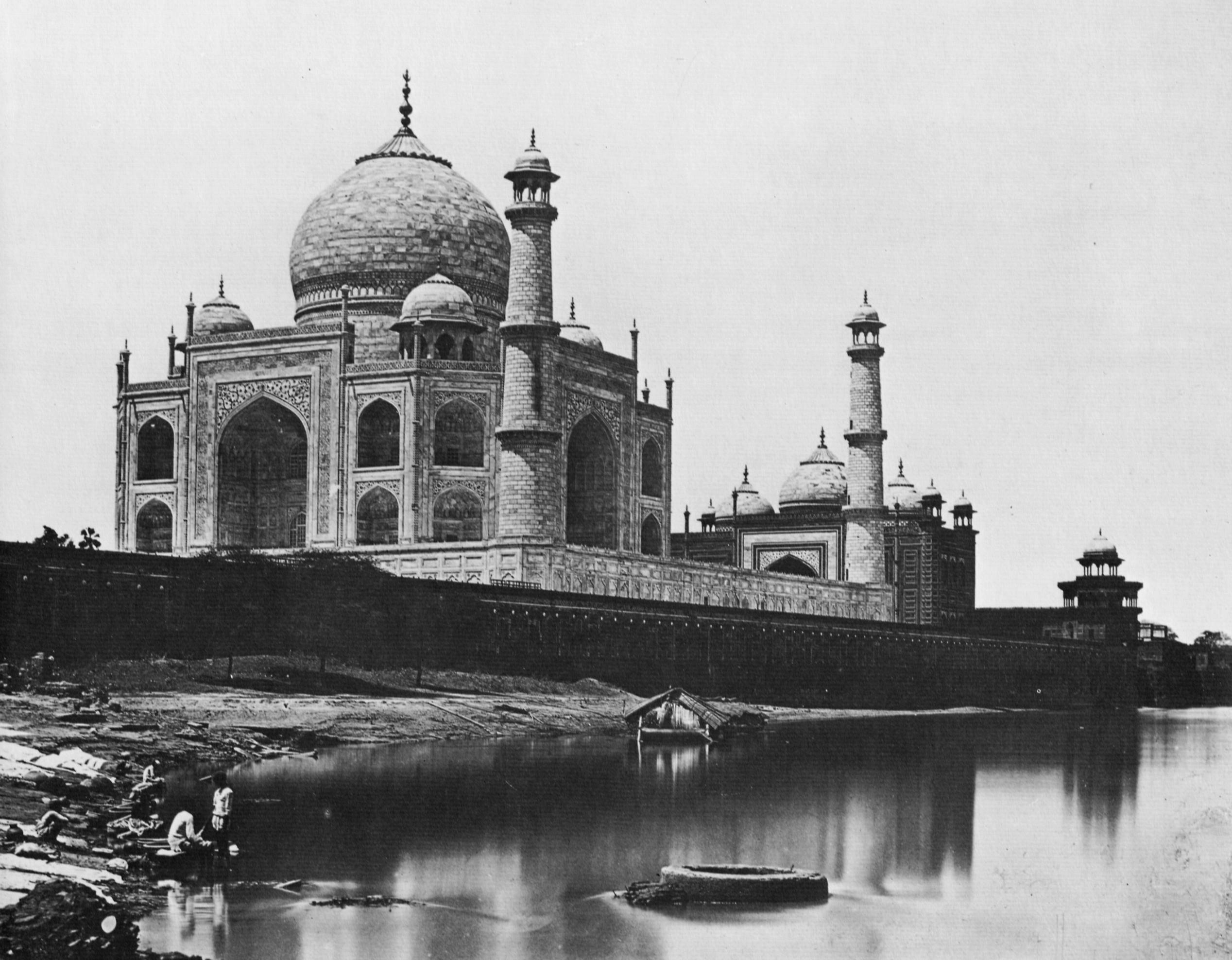 Taj Mahal.